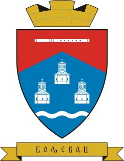 New Boljevac COA